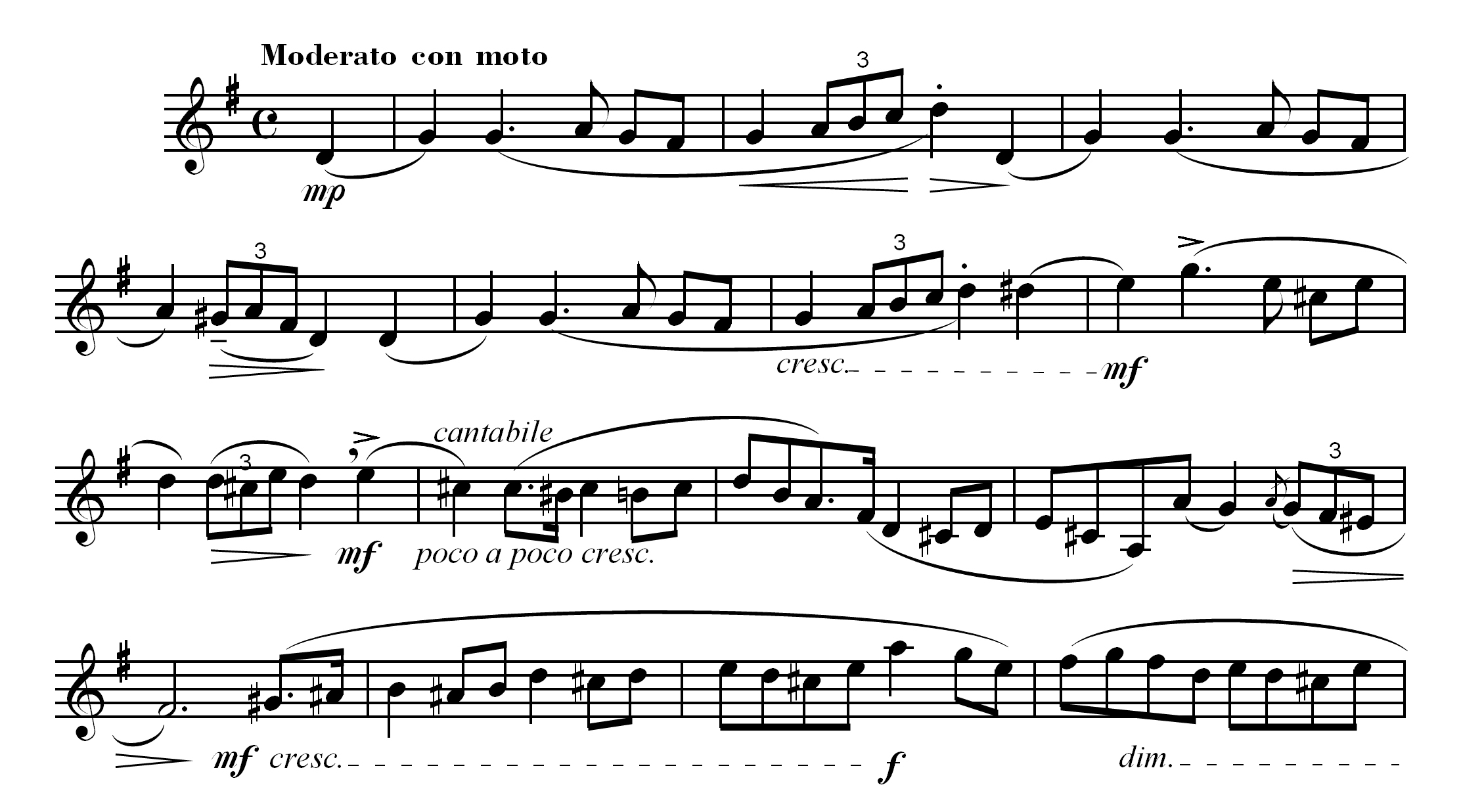 From the composition "Arietta" by Radivoj Lazić and Vlastimir Peričić.